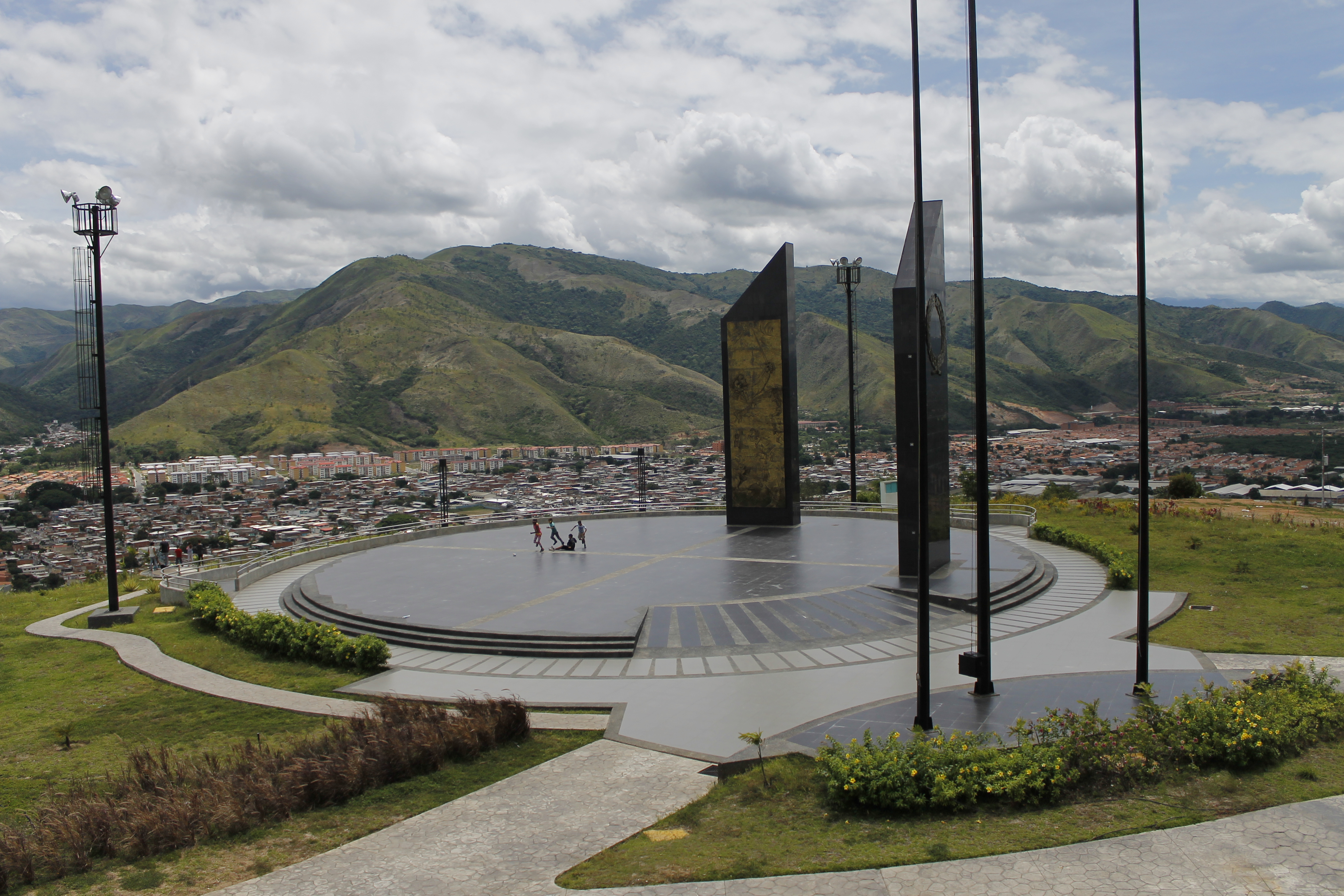 Monument to the youth in commemoration to the battle of the Victory, Aragua Venezuela